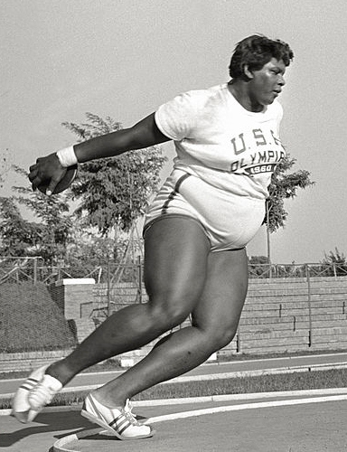 Earlene Brown at the 1960 Olympics.